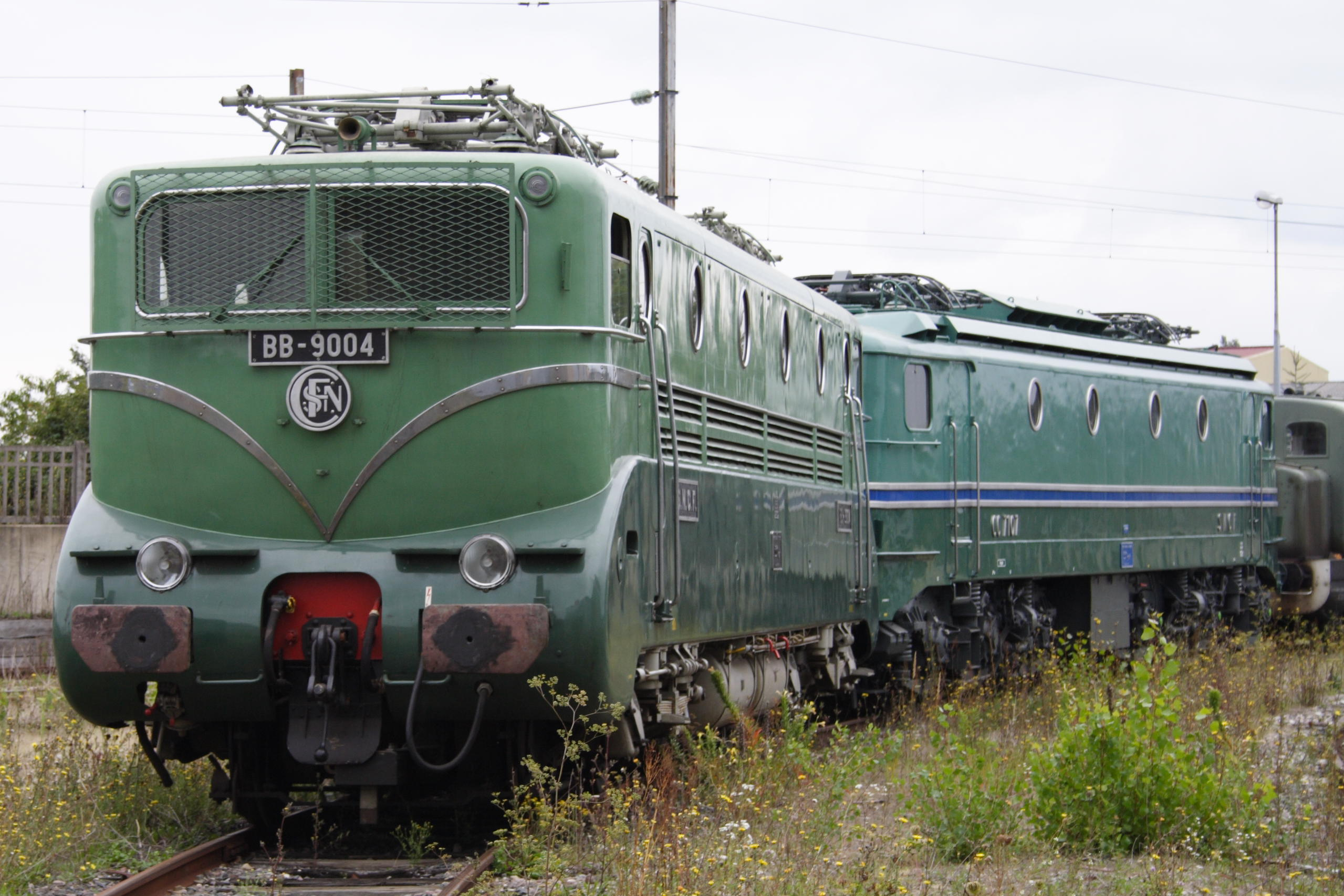 Electric locomotive BB-9004 and CC-7107 (world speed record in 1955 at 331 km/h) at Cité du Train de Mulhouse(Mulhouse, France)